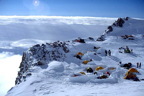 High camp at 17,200 feet (5,200 m) on Denali